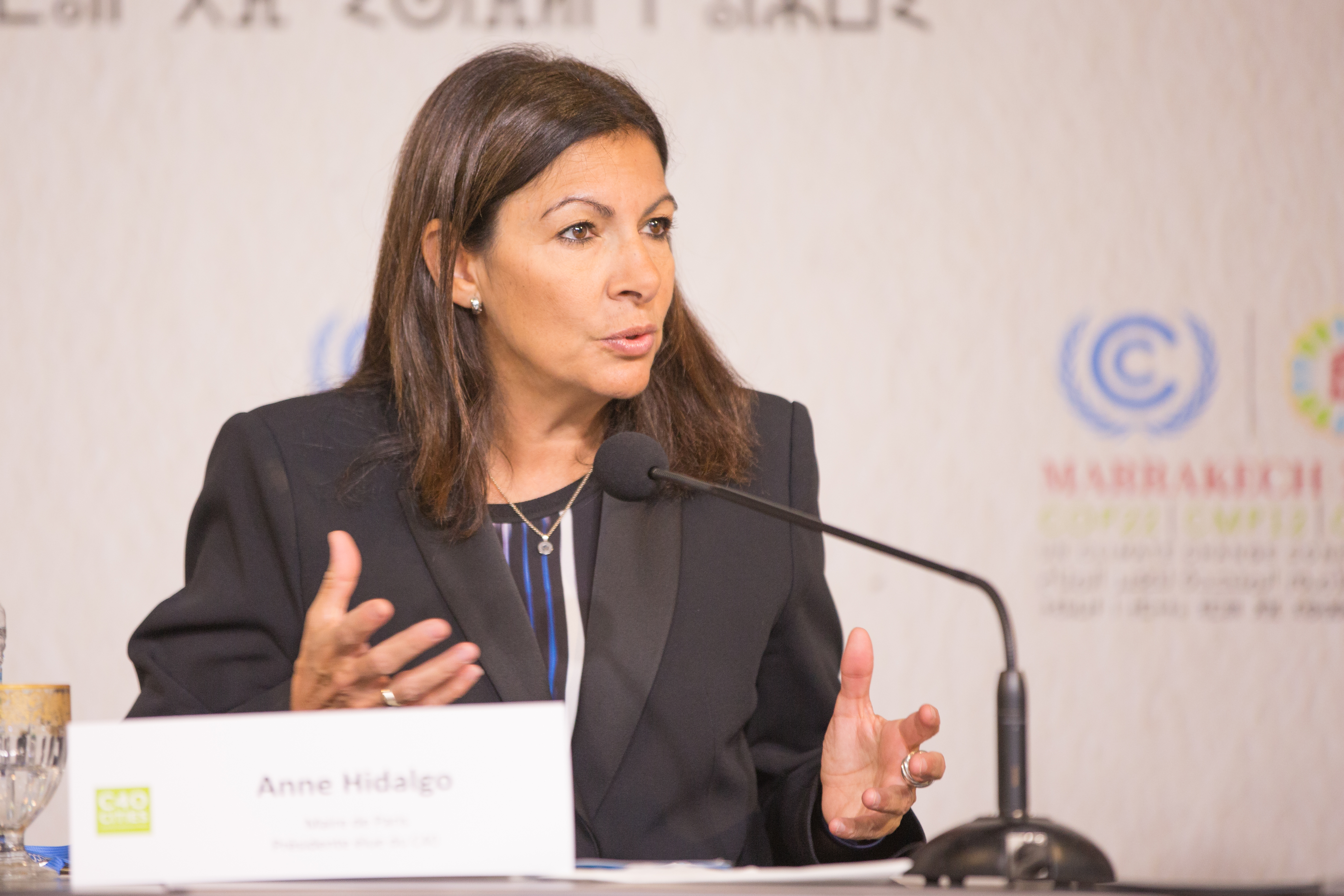 Women4Climate - with Anne Hidalgo, Patricia Espinosa and leading women in climate